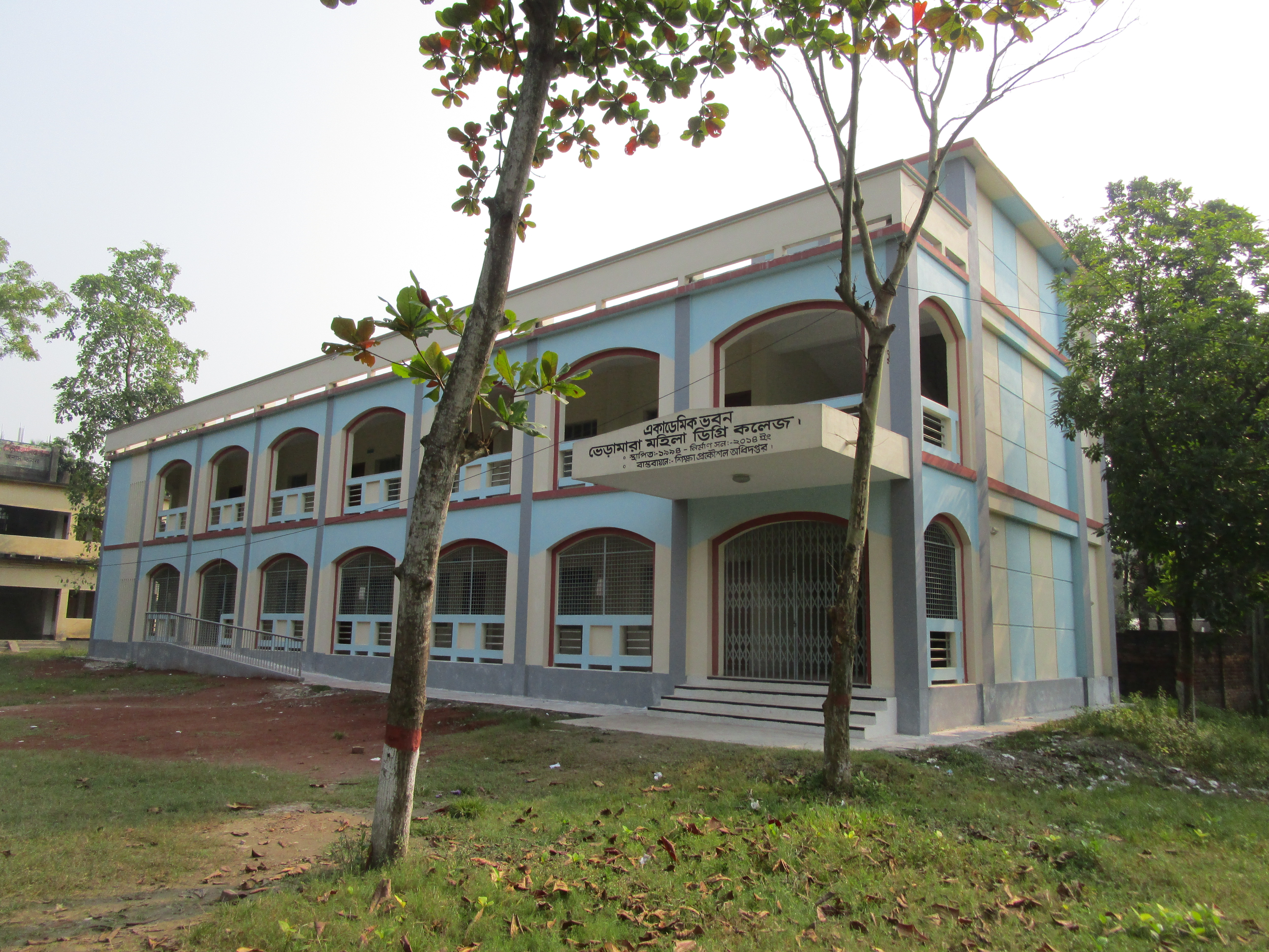 Veramara Womens College building.